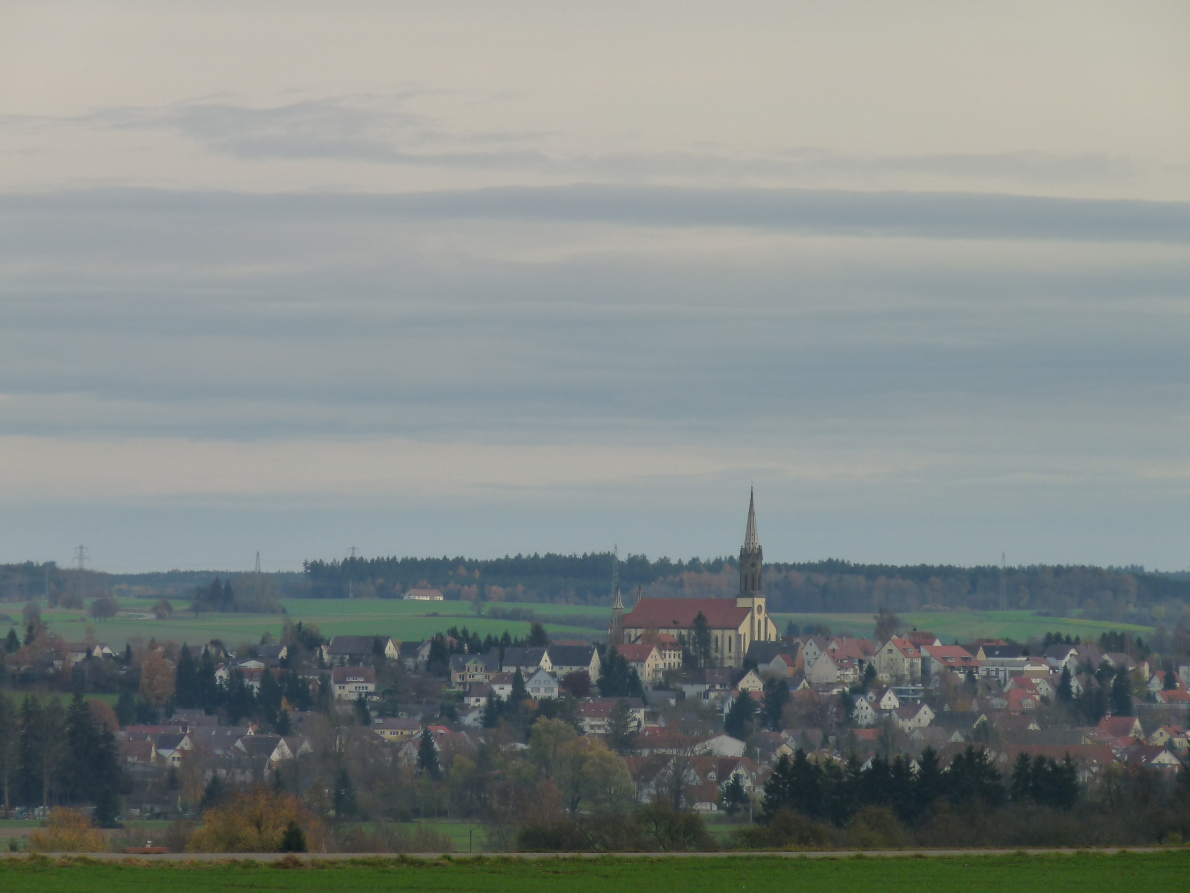 German village Hohentengen